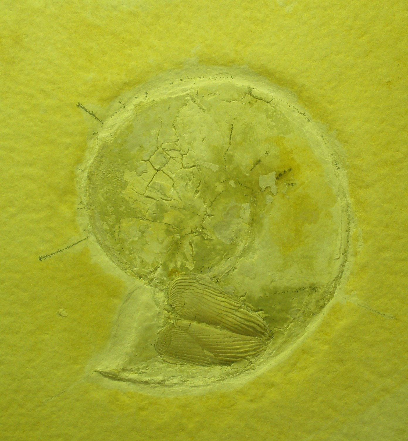 Took the photo at Museo di Storia Naturale di Verona